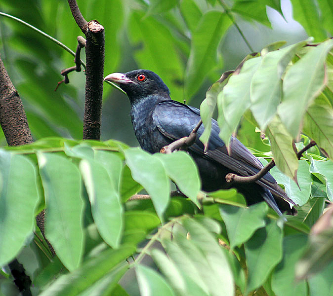 Asian Koel Eudynamys scolopaceus in Kolkata, West Bengal, India.